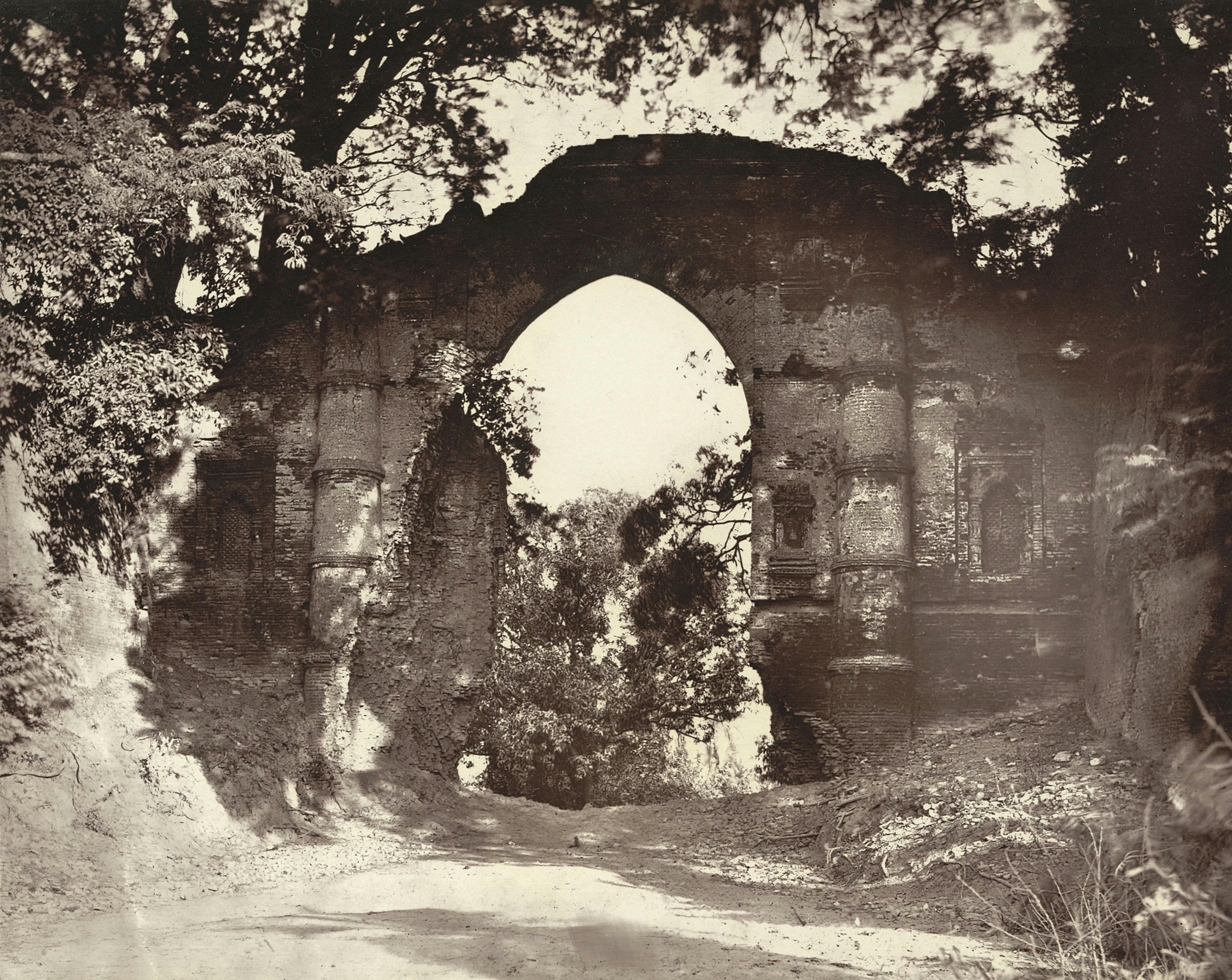 Photograph taken in the 1860s by John Henry Ravenshaw, one of 45 prints in the album 'Gaur: Its Ruins and Inscriptions'. Once known as Lakshmanavati or Lakhnauti, Gaur was an ancient capital of the rulers of Bengal. It came to prominence under the Buddhist Palas from the 8th century, and then prospered under the Hindu Senas from the 12th century. It fell to the Delhi Sultanate in the 13th century and later served as the capital for the independent Sultans of Bengal from the mid-14th century till the 16th century, except for an interval between 1354 to 1442 when neighbouring Pandua was made capital. Gaur was relinquished to ruin and decay by the end of the 16th century. With its history as a provincial centre of Islamic culture, Gaur has the remnants of many monuments. Part of the 15th century fort remains along with its much ruined gateways or darwazas. Ravenshaw wrote of this view looking along the road towards the arched Kotwali Darwaza which marked the southern end: 'Two miles further down the road brings us to the southern rampart of the city, through which the road passes, under a magnificent archway known as the Kotwali Gate. It is fifty-one feet under the arch, and was provided with a semicircular abutment on either side, for the military guard on duty. Even in its present ruined state, this gateway is one of the most imposing sights in Gaur; tamarind trees overhang it on all sides, while large pipal trees may be observed springing from the centre of its walls.'